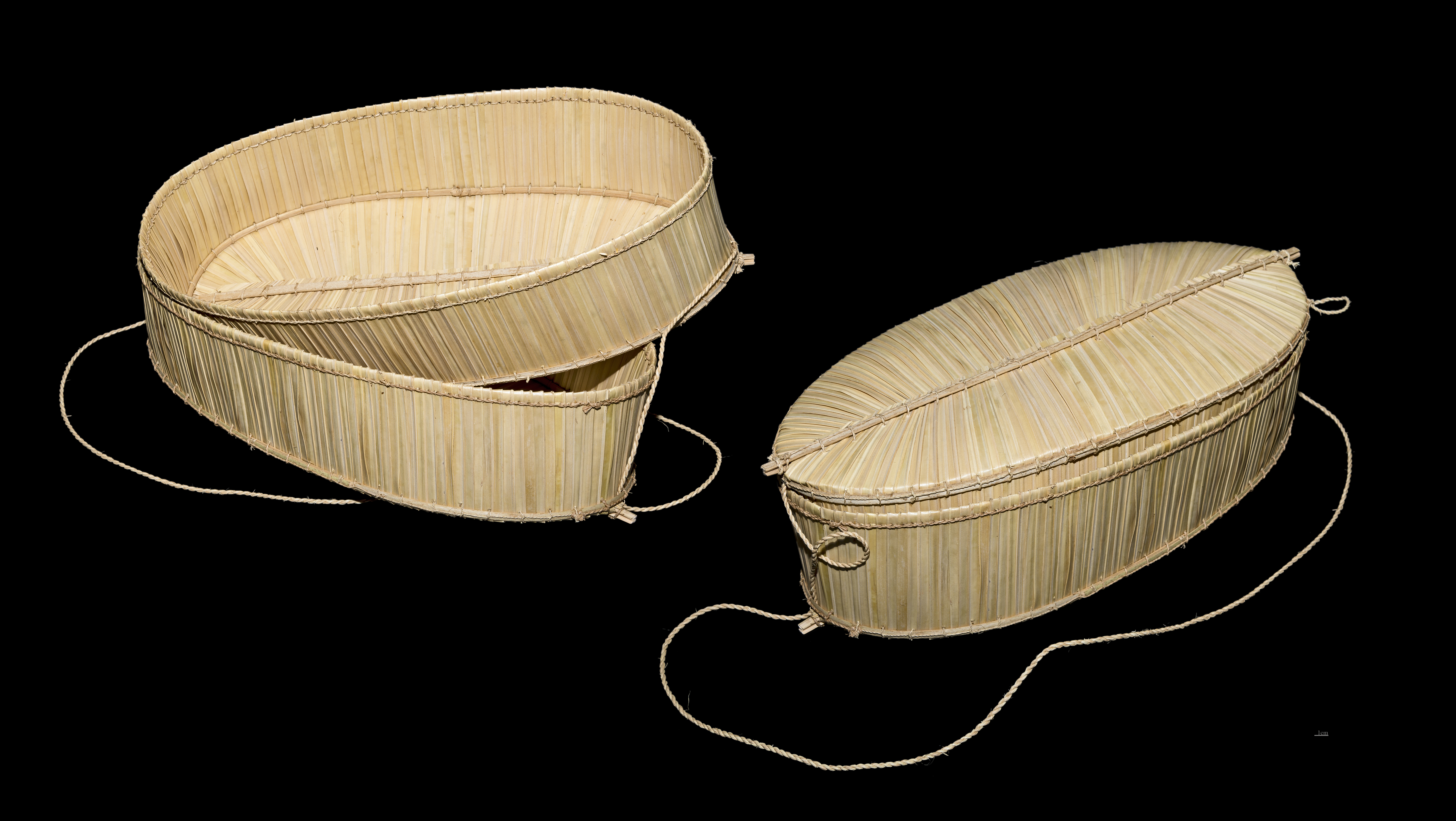 Basket with lid "Warabahu", two views of the same object. Basket used to keep the feather ornaments. Population : Karajá people : Santa Isabel do Morro (Hawaló), Brasil Date of collection: June 2010 Materials: Buriti palm fibers (Mauritia flexuosa) and natural pigments Size : 44.5x13x22.5 cm